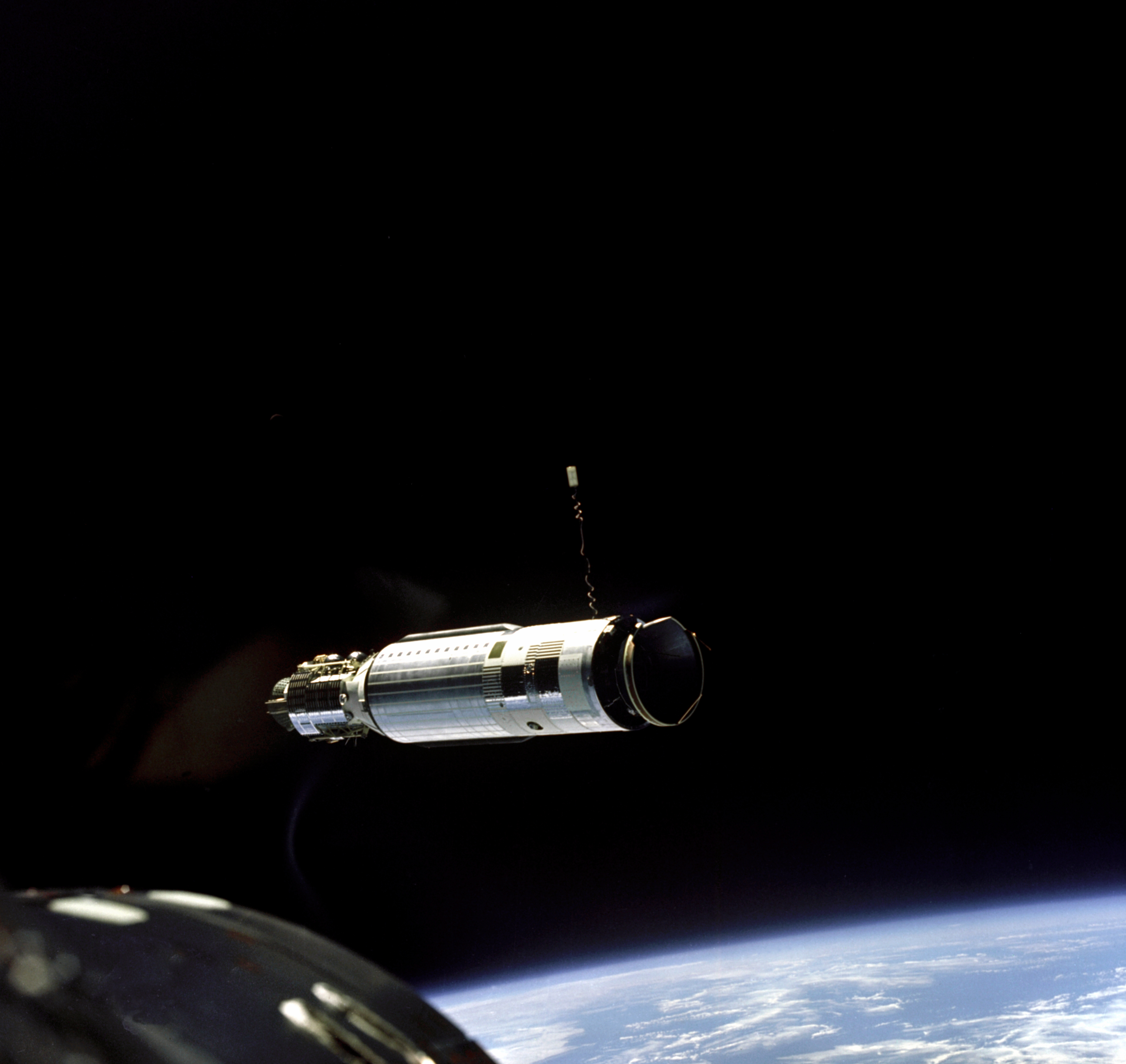 The Agena Target Vehicle as seen from the Gemini 8 spacecraft during rendezvous. This was the first time two spacecraft successfully docked, which was a critical milestone if a mission to the Moon was to become a reality.